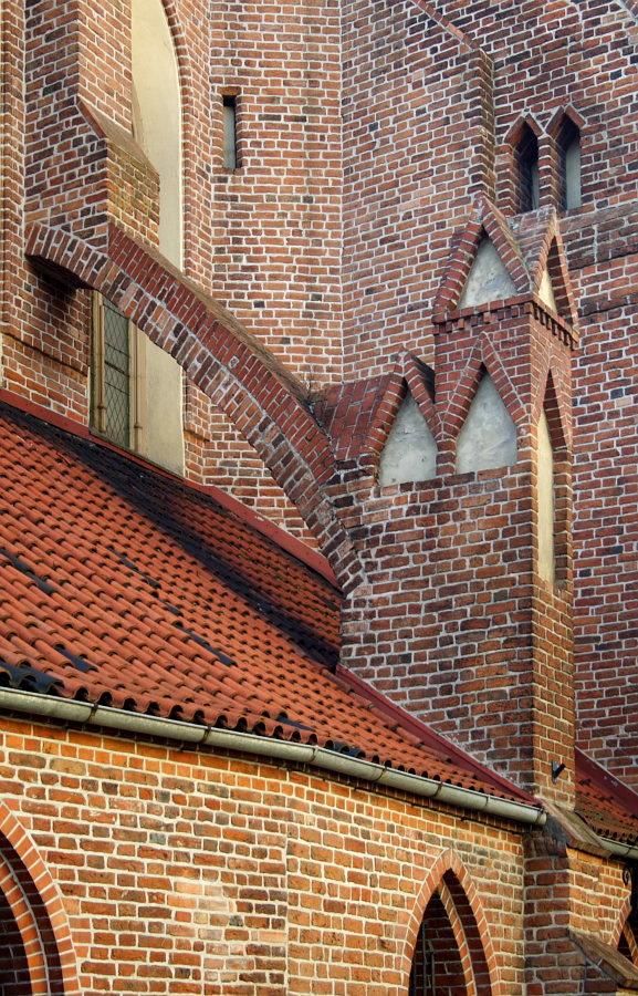 Grudziądz, church of St. Nicholas, flying buttress over the sacristy